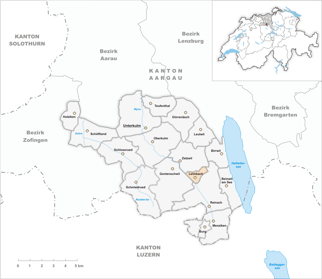 Municipality Leimbach